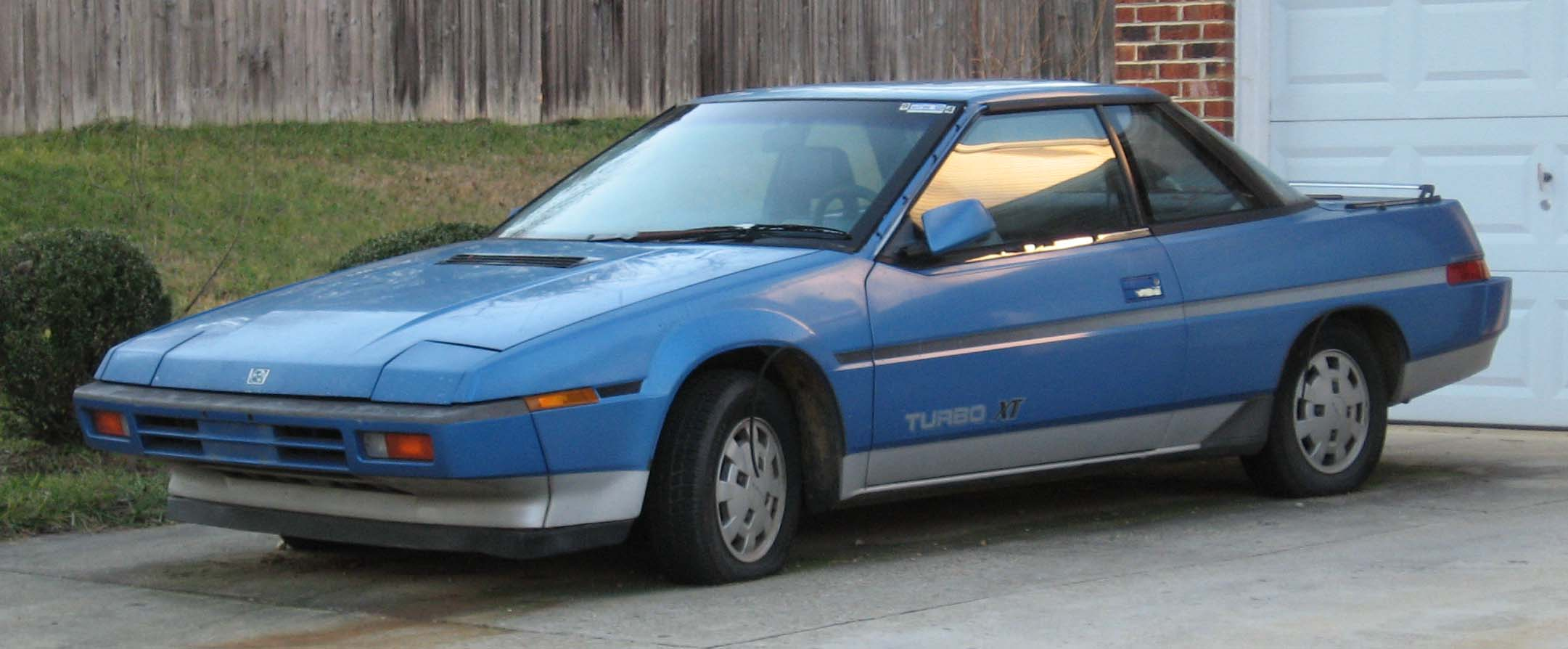 Subaru XT Turbo photographed in USA.